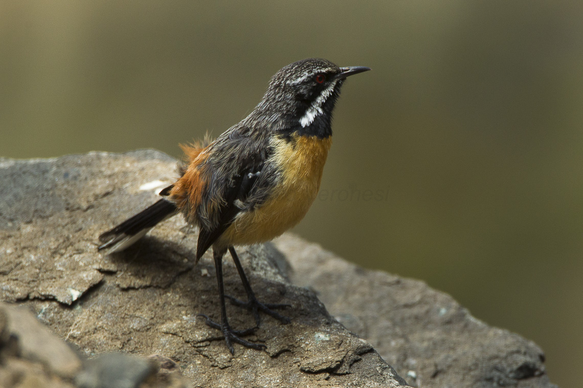 Orange-breasted Rock-Jumper - Natal - South-Africa_S4E7033